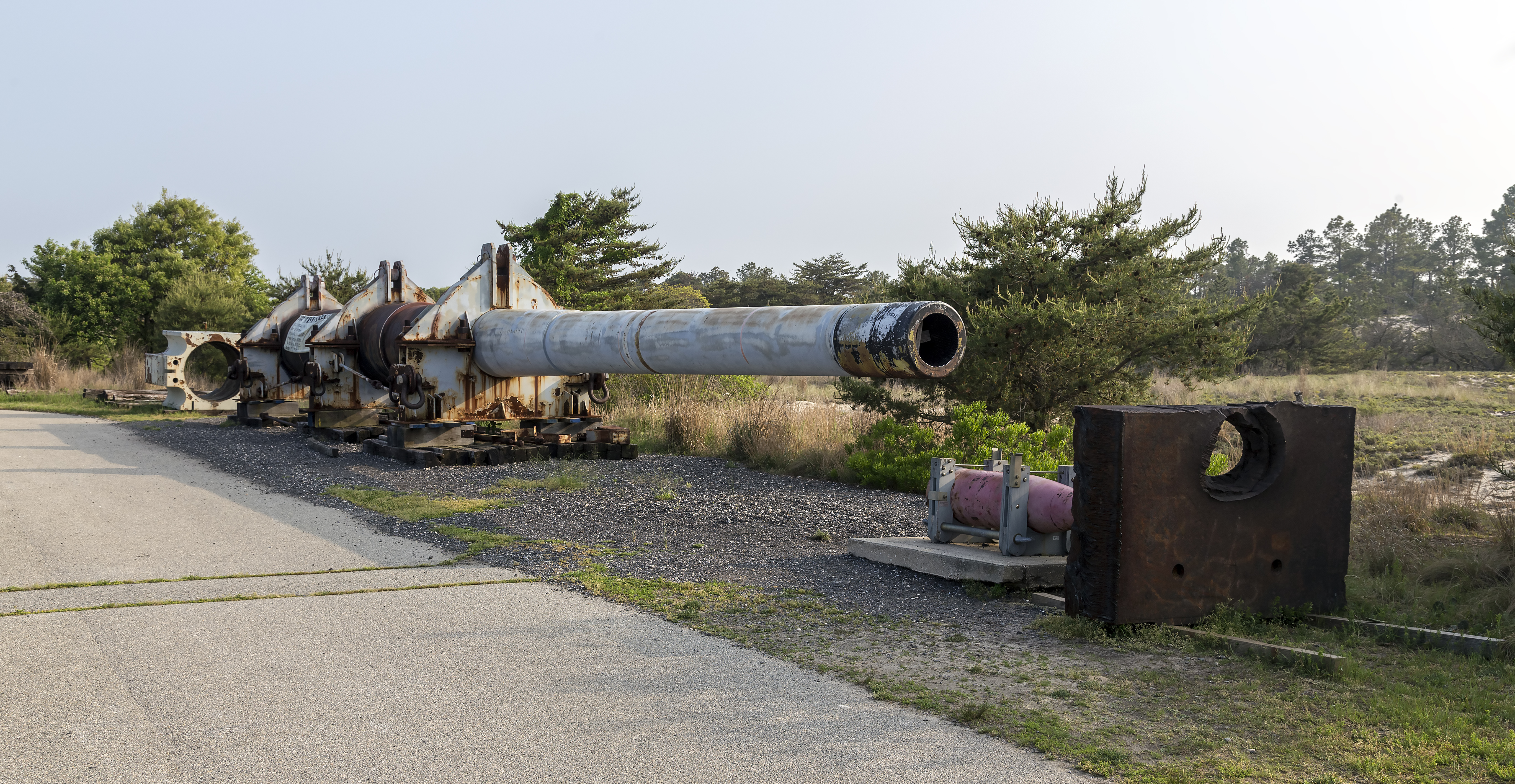 A 16" gun from the USS Missouri at Fort Miles, Delaware, USA